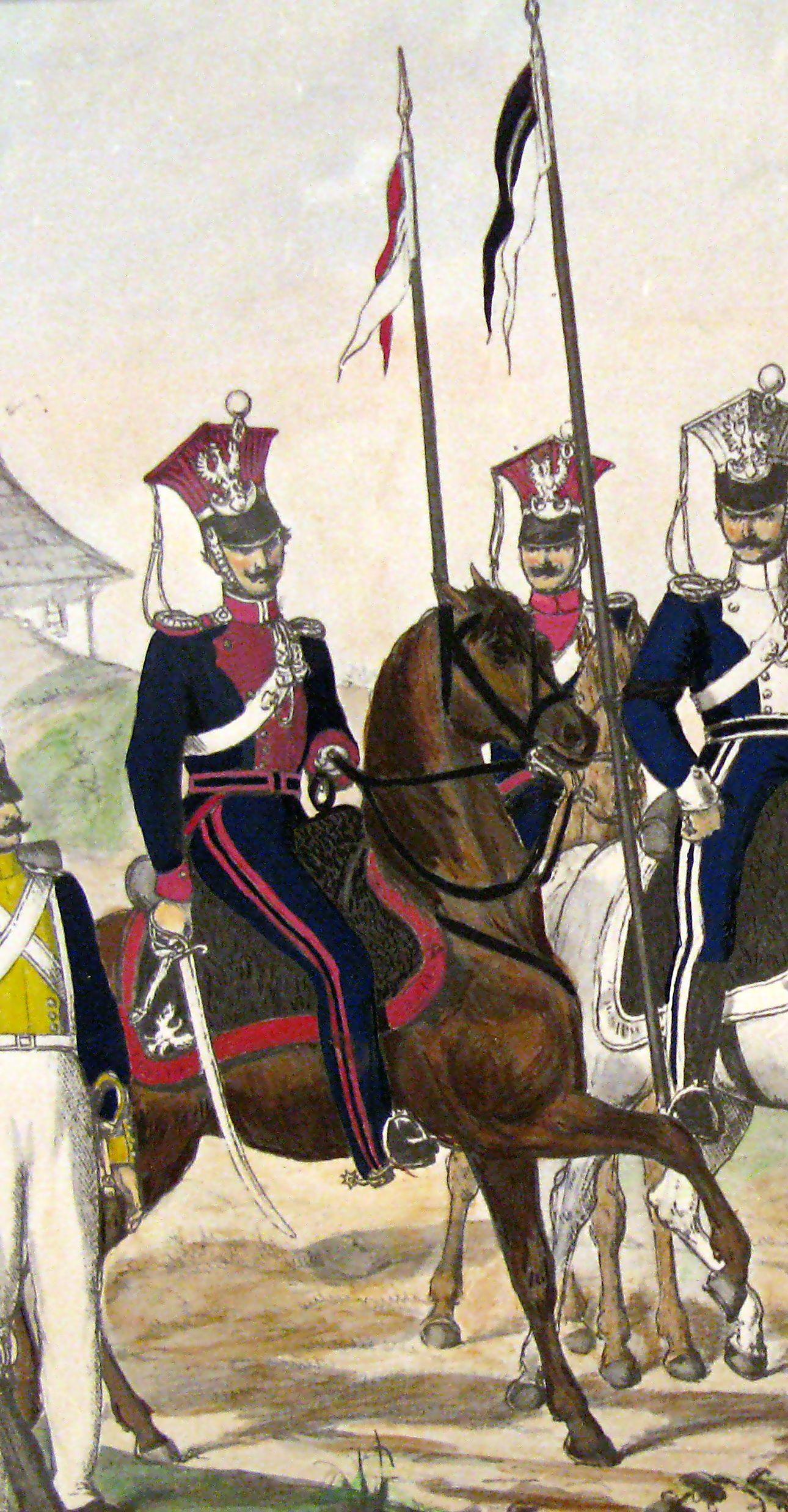 1st Uhlan Regiment of Polish Army of November Uprising